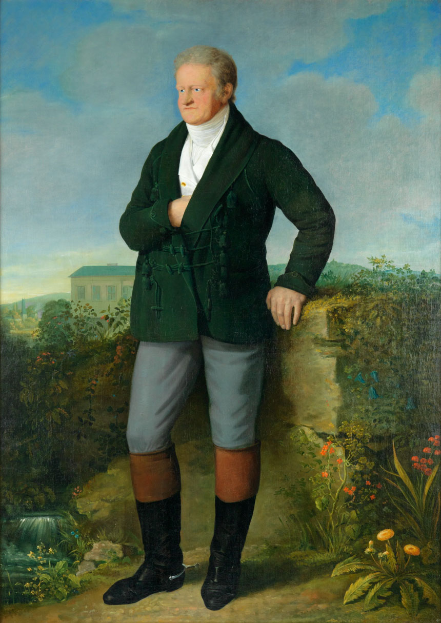 Portrait of Karl August, Grand Duke of Saxe-Weimar-Eisenach (1757-1828)